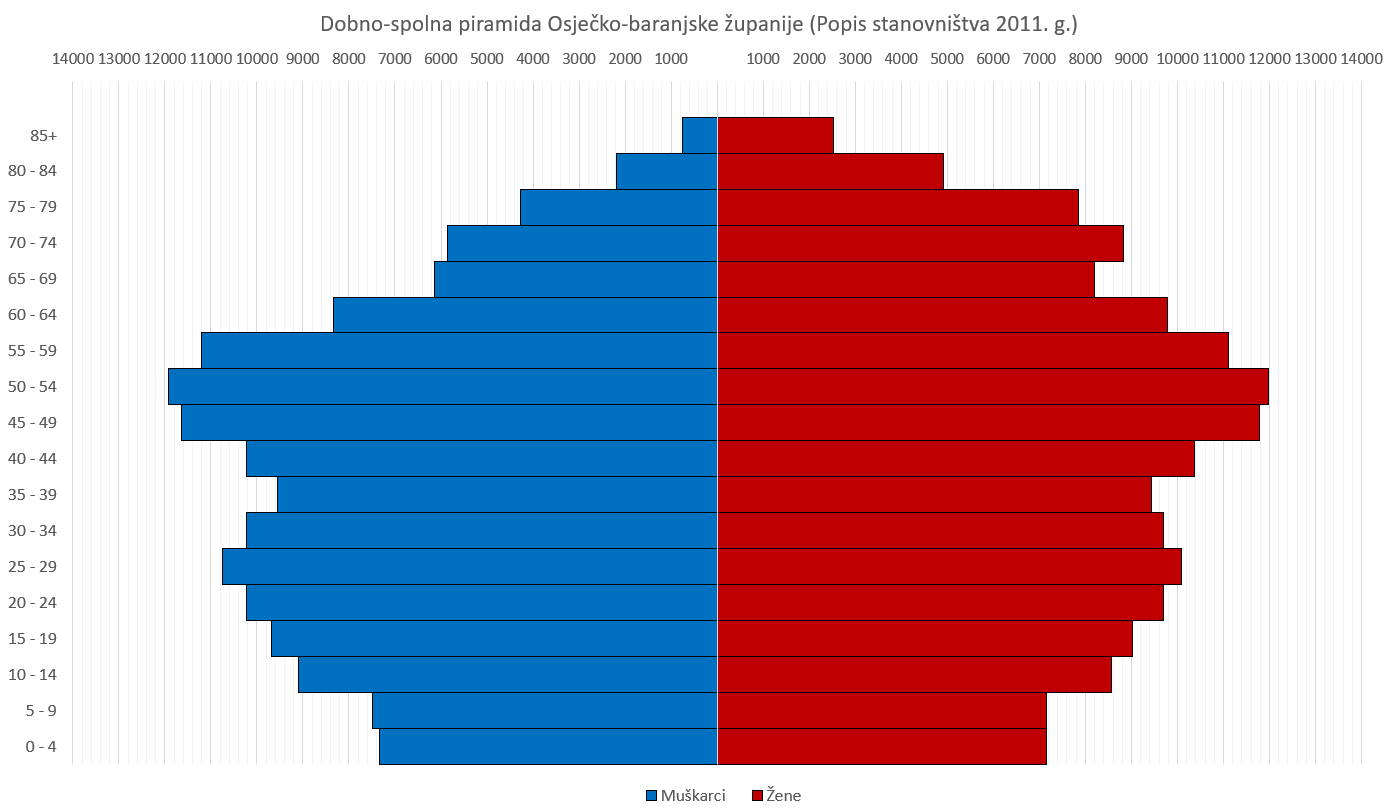 Population pyramid of Osijek-Baranja County. Version in Croatian. Data from 2011 Census; available at